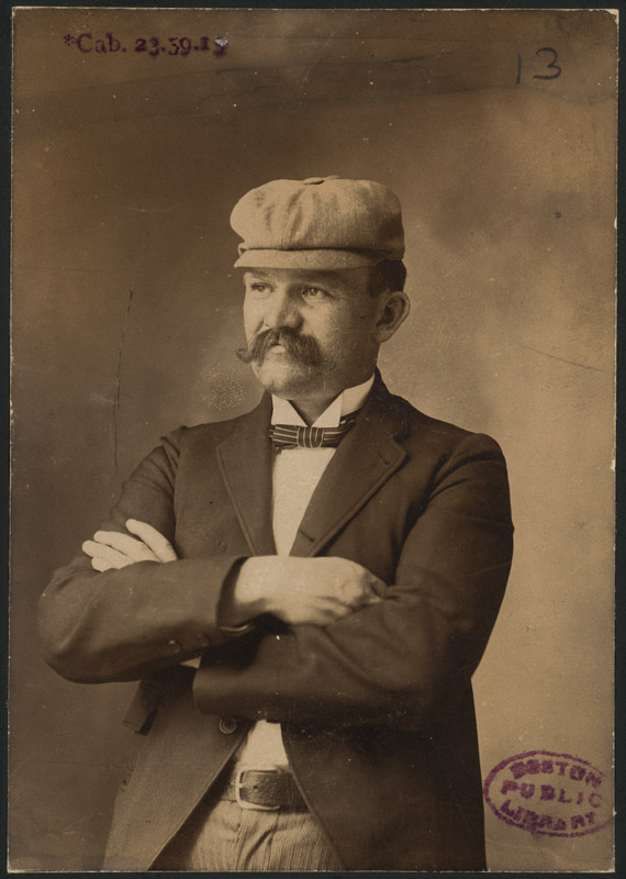 Michael T. McGreevy baseball card